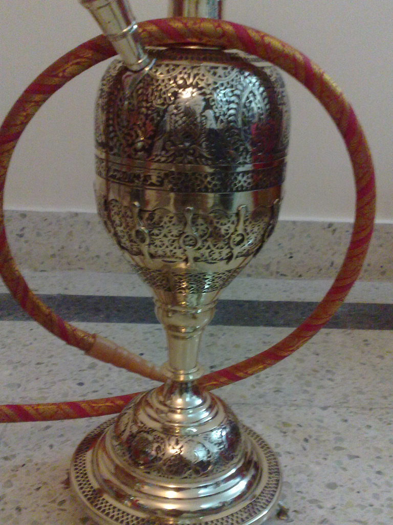 The intricate work on the Malabar Hookah from Koyilandy